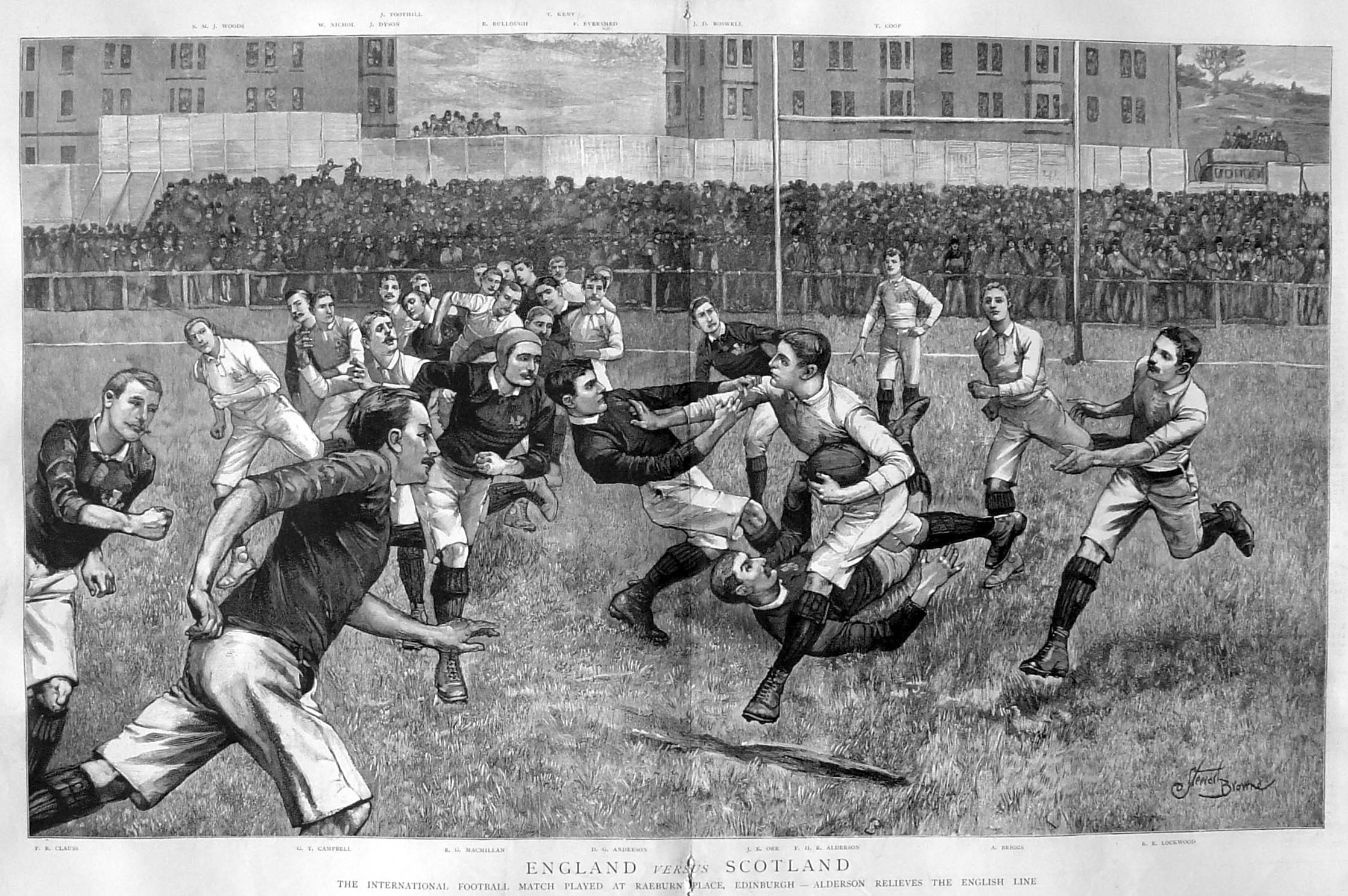 Rugby union match between Scotland and England playing for the Culcutta Cup in Edinburgh in 1892.